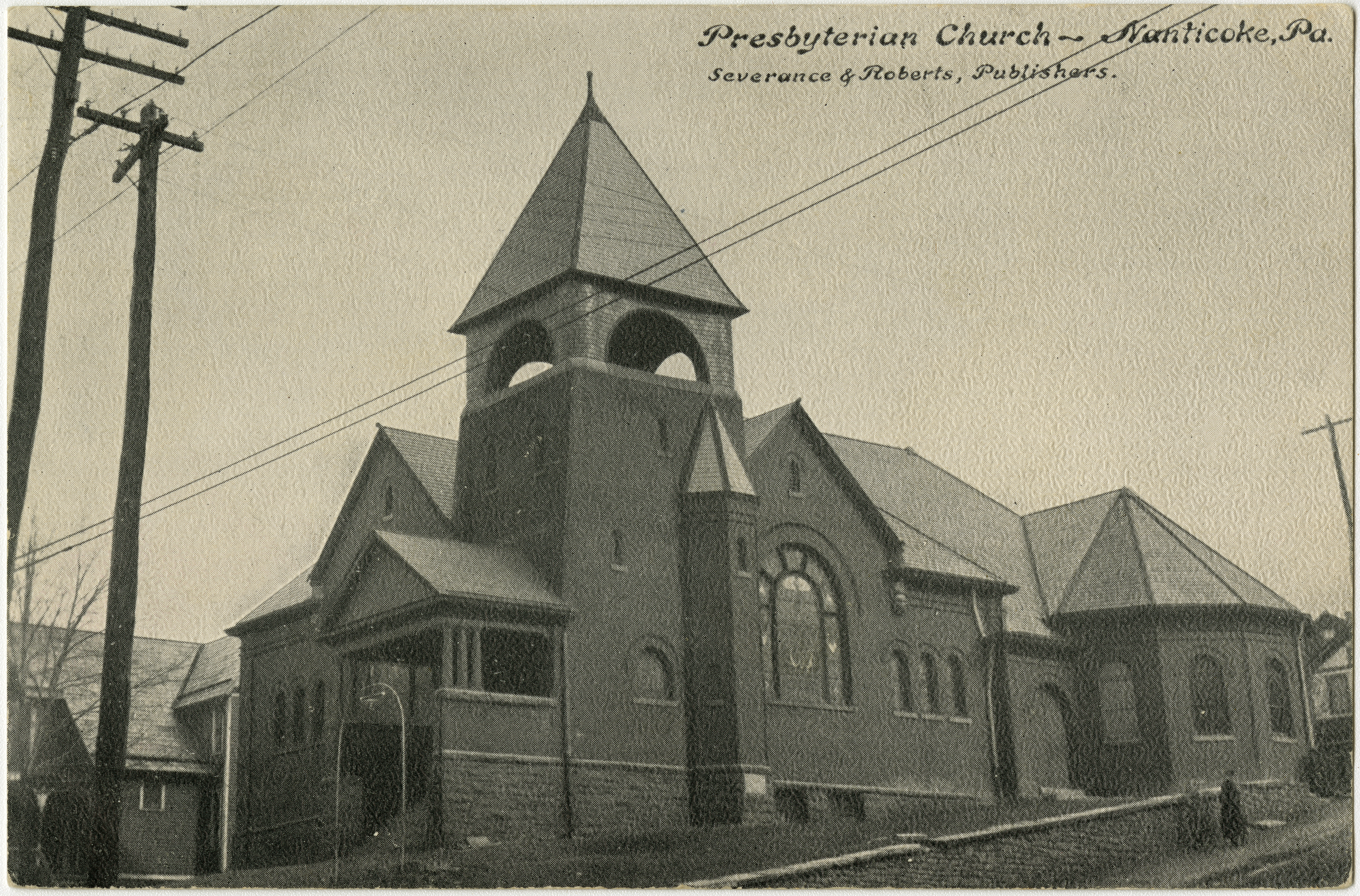 Presbyterian church in Nanticoke, Pennsylvania from a pre-1923 postcard. From RG 428, Postcard Collection, Presbyterian Historical Society, Philadelphia, Pennsylvania.